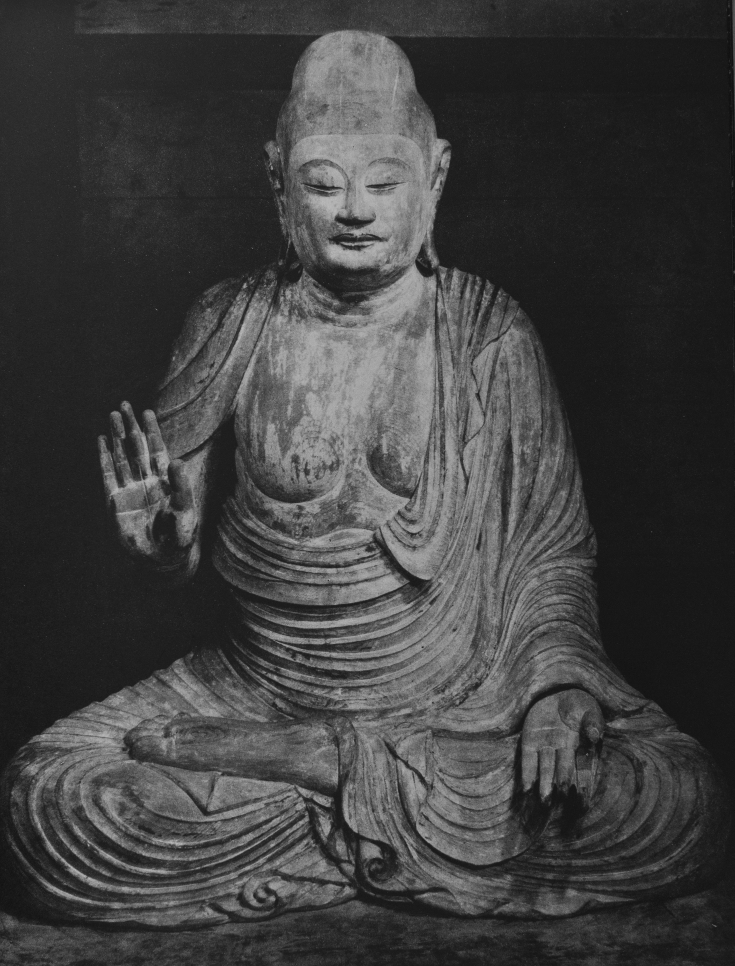 Mirokudo, Muroji, Nara, Japan